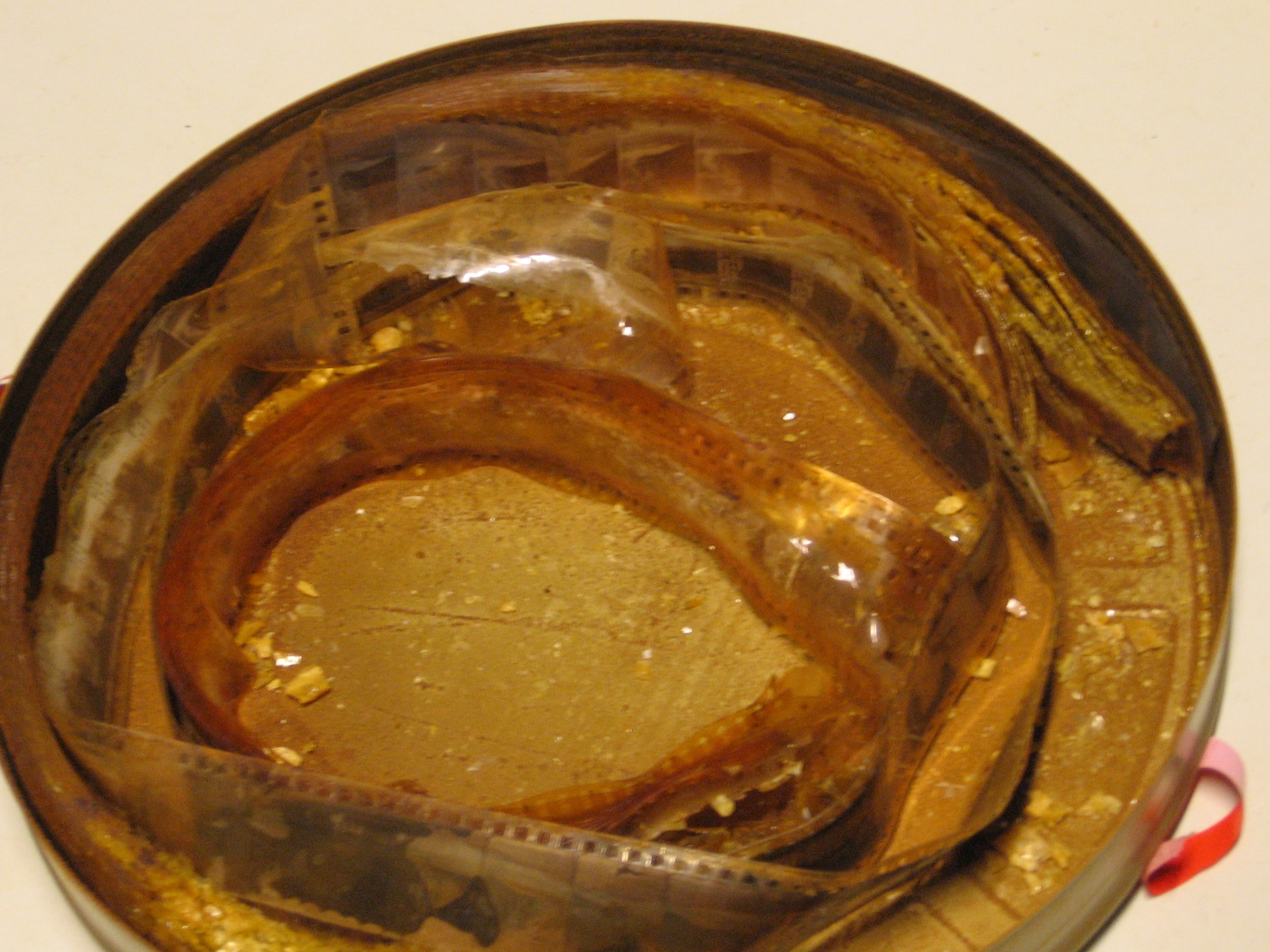 Film can with decayed nitrate film, EYE Film Institute Netherlands, Amsterdam.